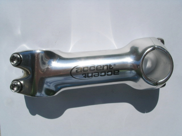 Ahead bicycle stem